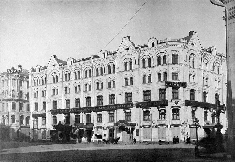 St.Joseph's Metochion, Birzhevaya square, Moscow. 1883, architect: Alexander Kaminsky